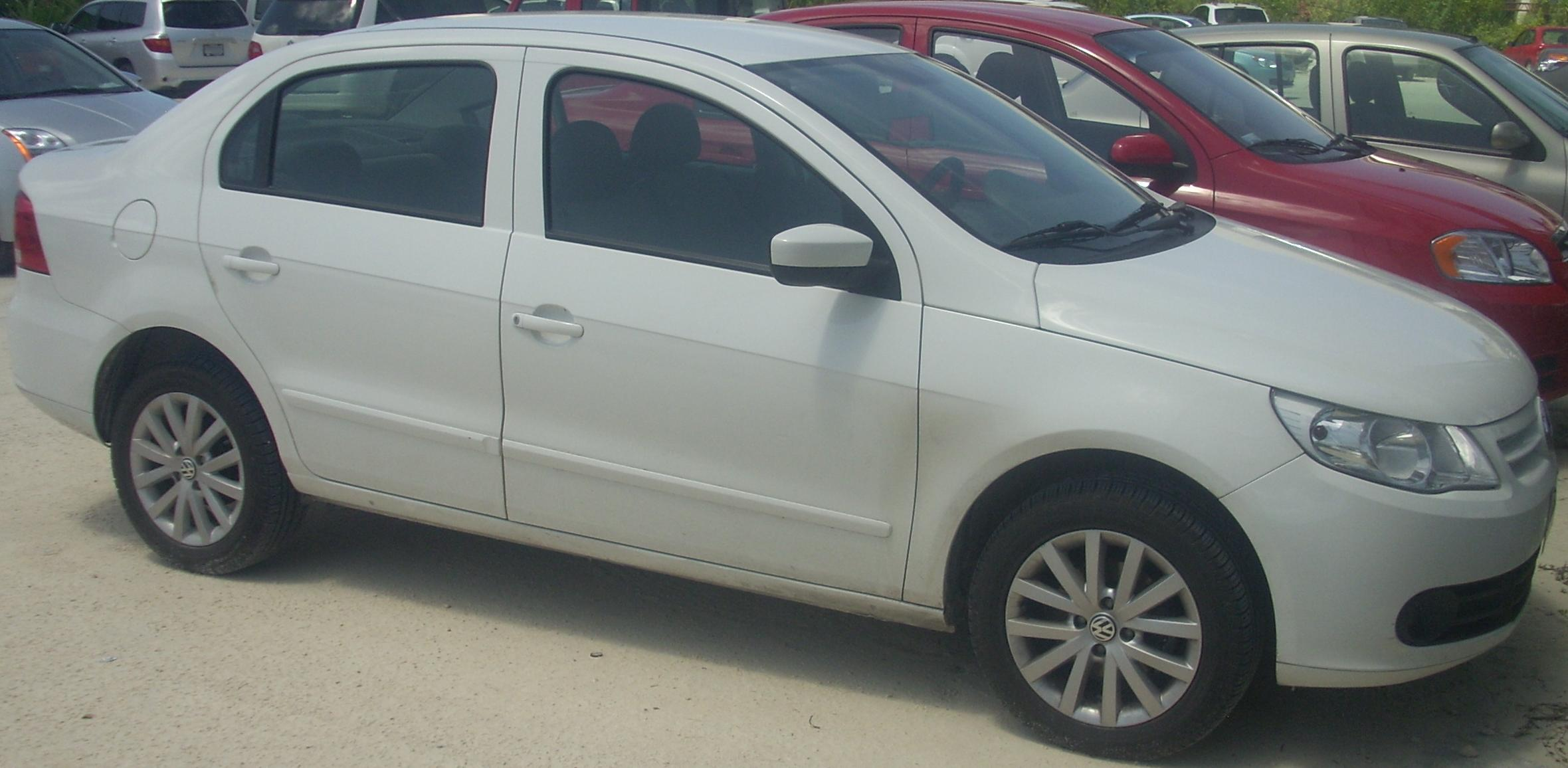 2009 Volkswagen Gol photographed in Cancun, Quintana Roo, Mexico